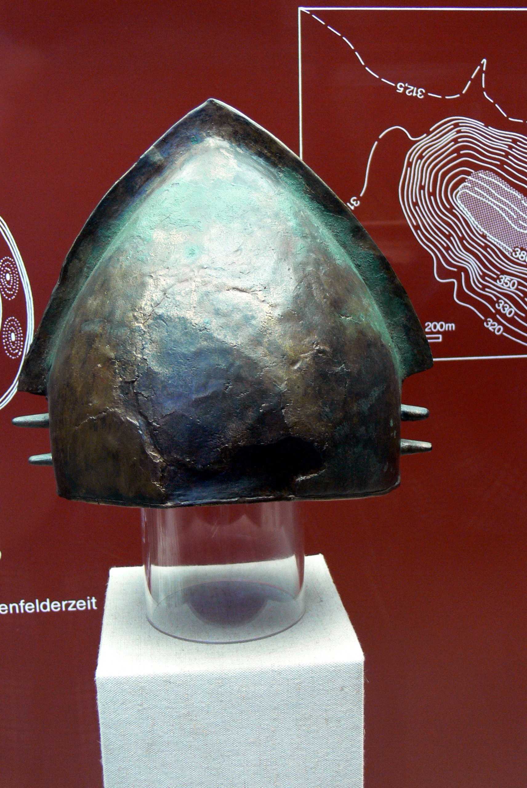 Roman museum Kastell Boiotro ( Passau ). Urnefield culture helmet from Pocking.